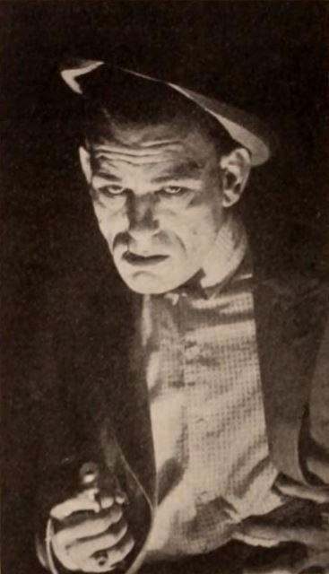 Still from the American crime film Outside the Law (1920) with Lon Chaney, on page 36 of the January 1, 1921 Exhibitors Herald.